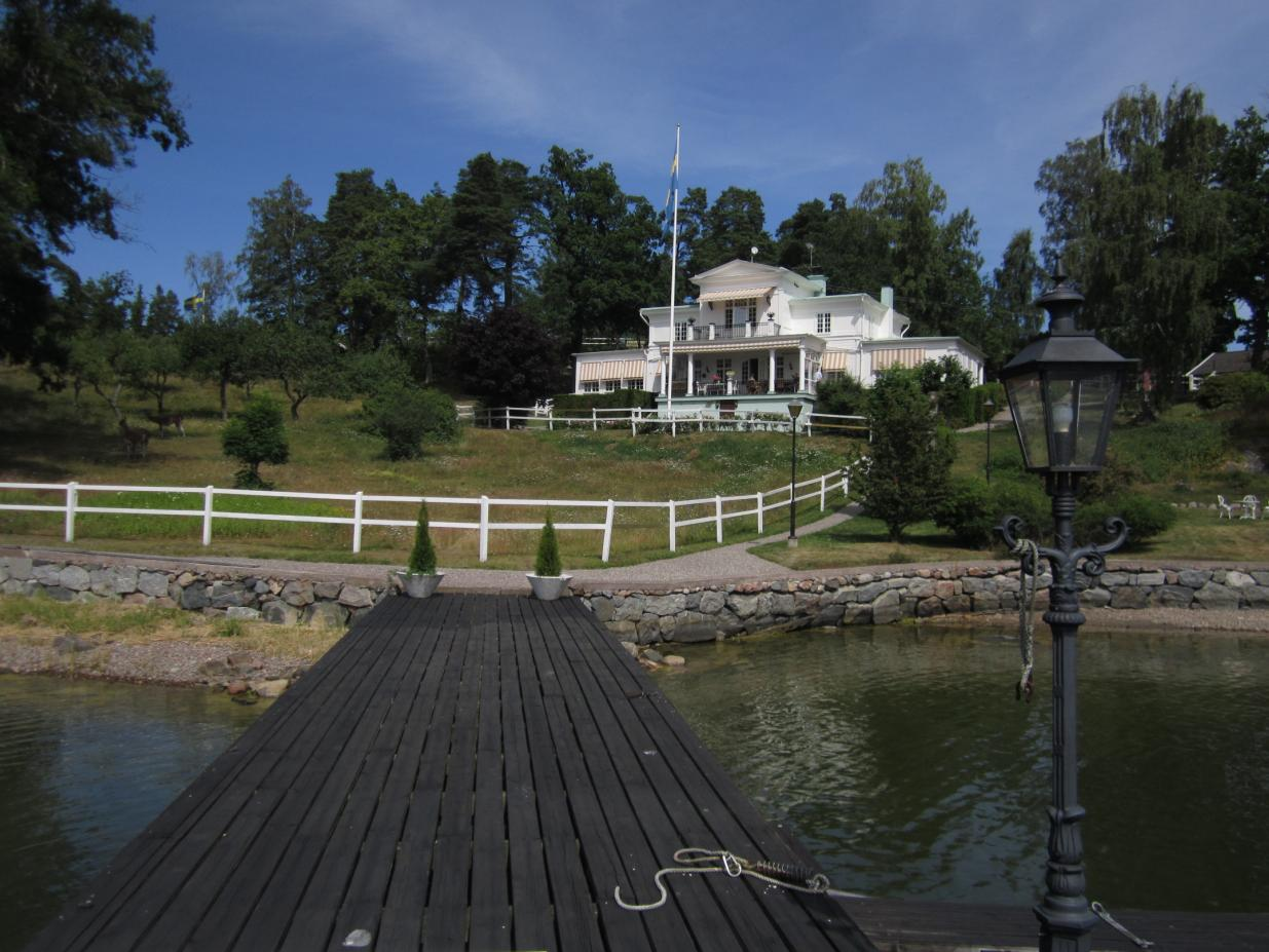 The home and estate of entertainment entrepreneur Hans E. "Hasse" WallmanPlace: Värmdö, Sweden